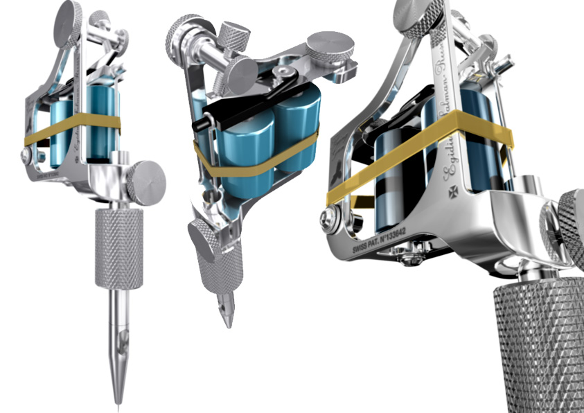 Dermographe